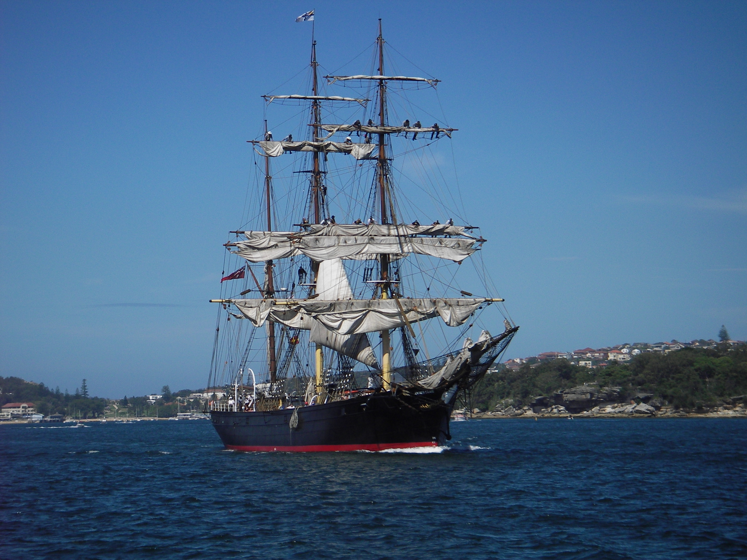 This is a Photo of the James Craig, a Barque built in 1874 and restored in 1997. This photo was taken on Sydney Harbour just north of Rose Bay.